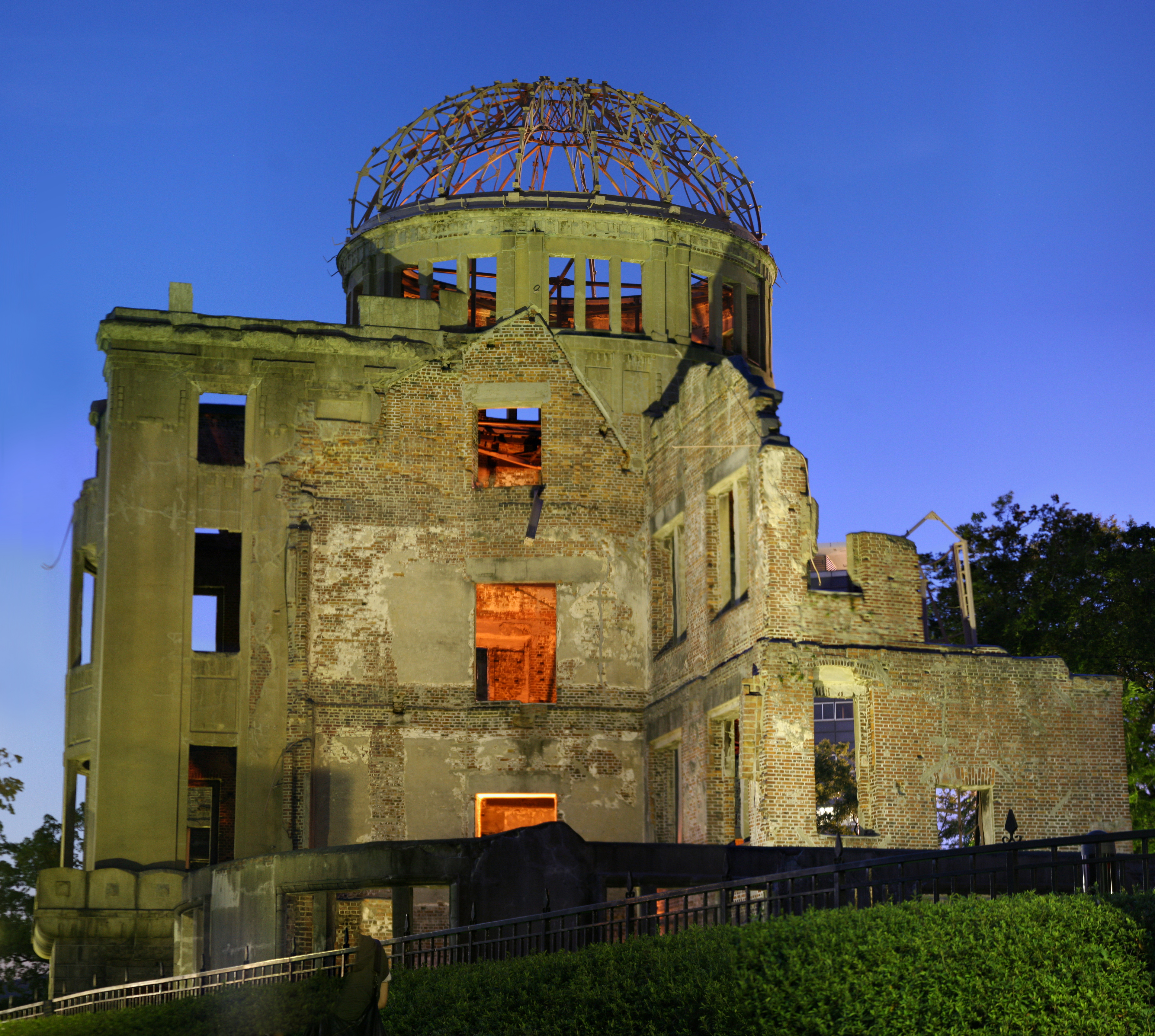 A-Bomb Dome in Hiroshima